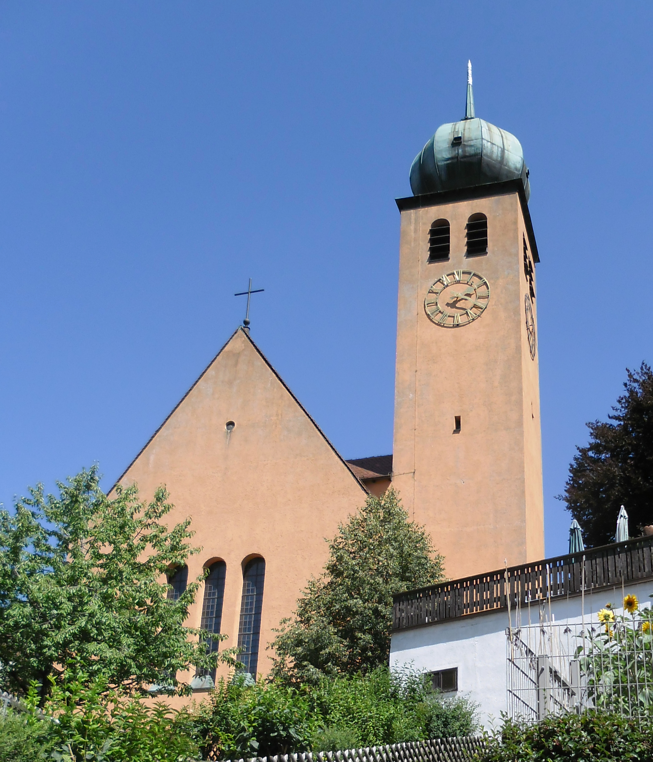 St. Martin's Church in Bruckberg, 1934/1935 by Christian Ruck from Nuremberg (school of German Bestelmeyer)